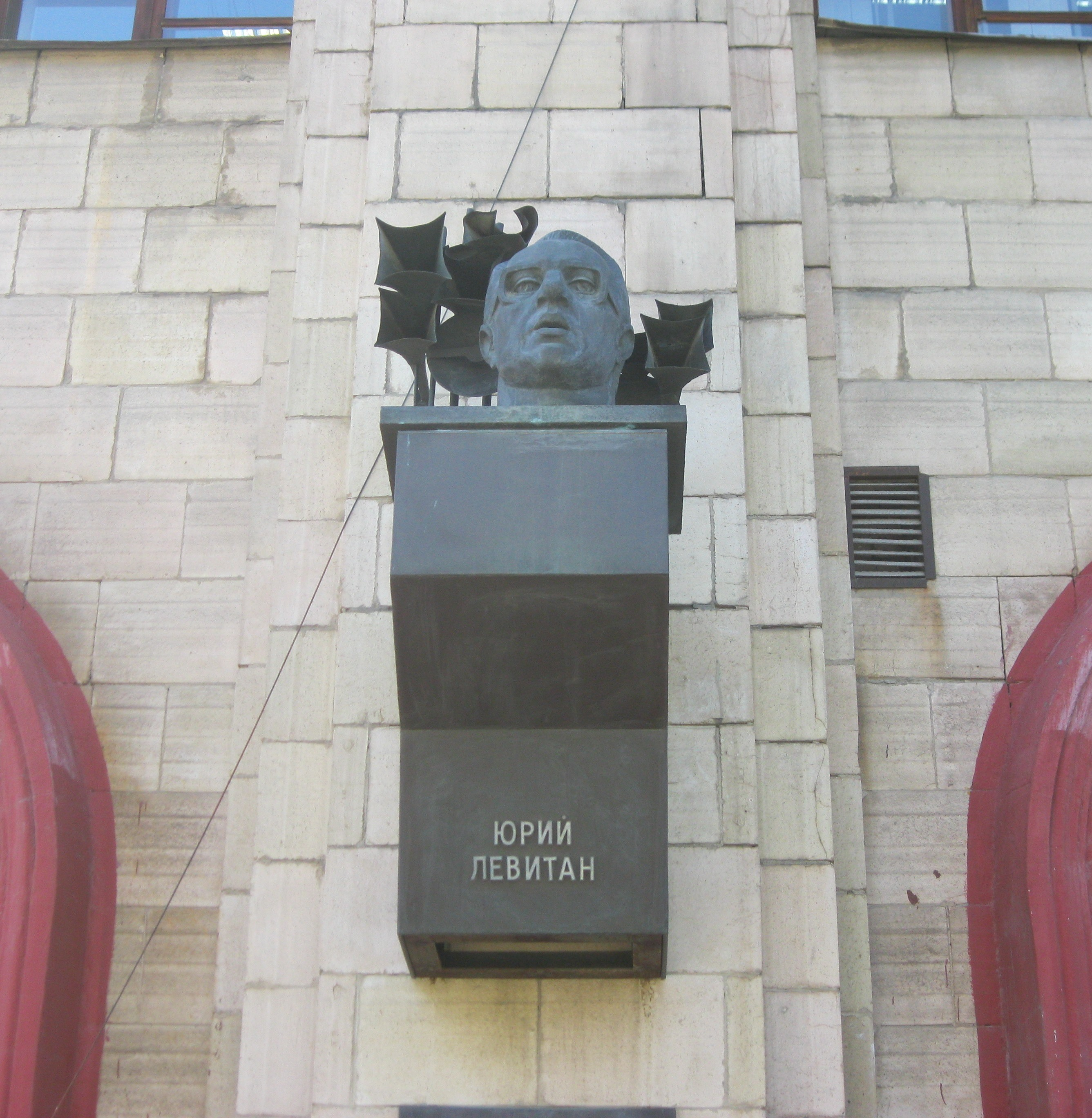 Monument to the post office building in Volgograd